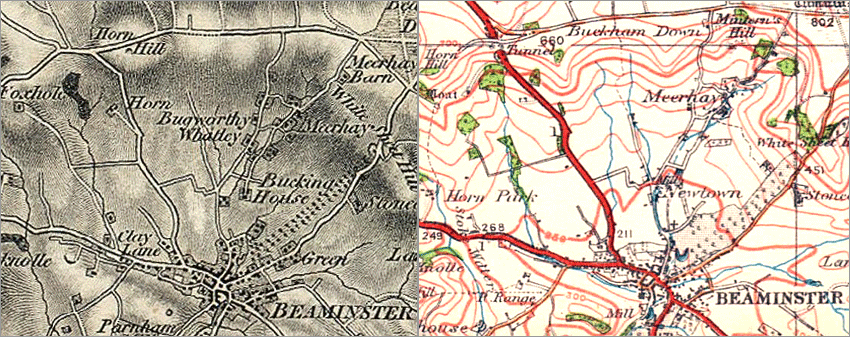 Maps of the Beaminster Tunnel area, before and after its construction. Left map, Ordnance Survey First Series, Sheet 18, 1811; right map Ordnance Survey Popular (4th) Edition, Sheet 139, 1932.